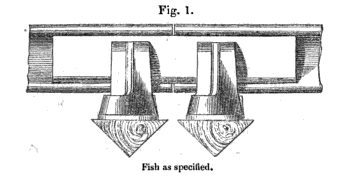 Design for fishplate by William Bridges Adams 1847